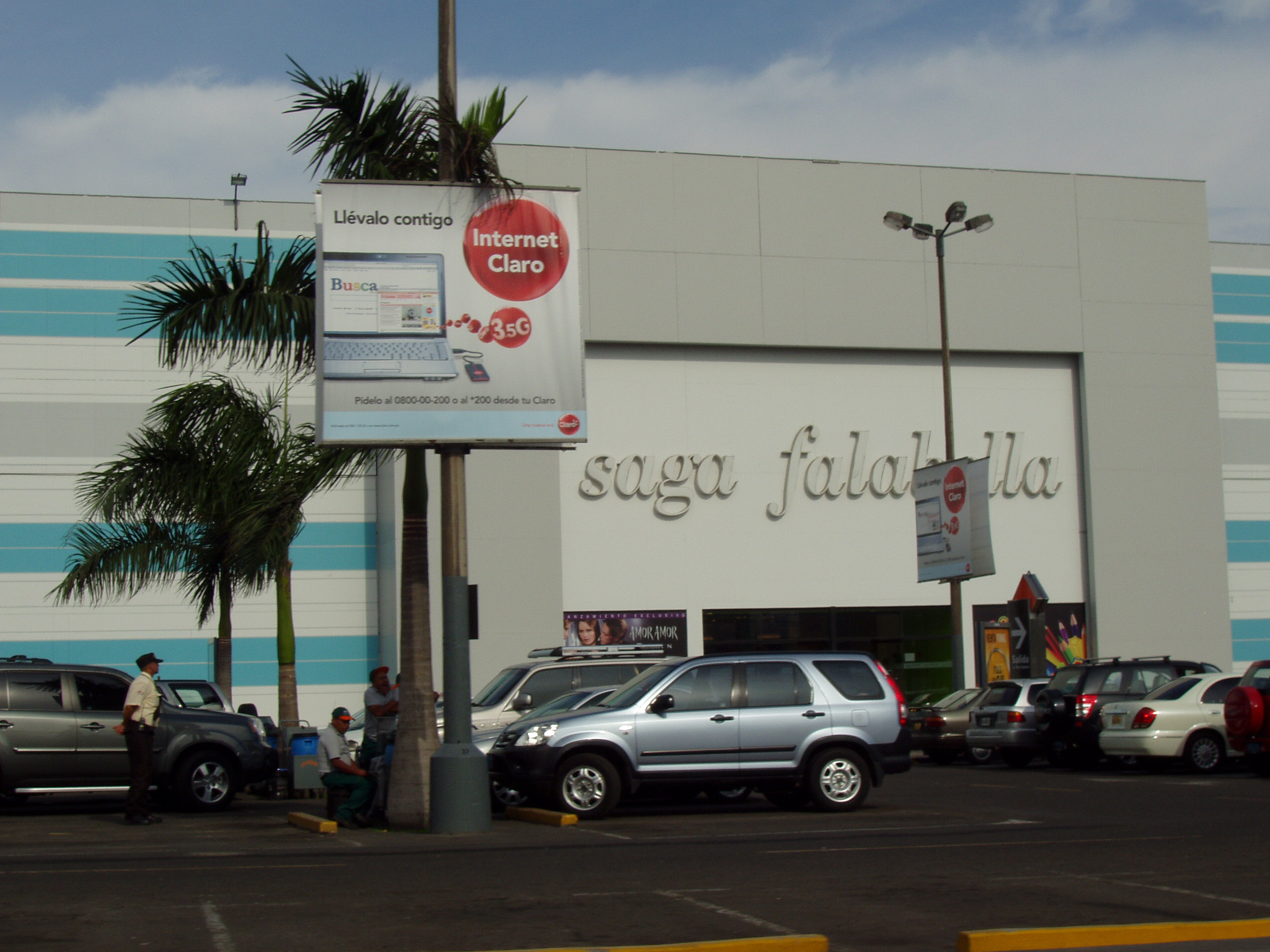 Saga Falabella at Plaza San Miguel